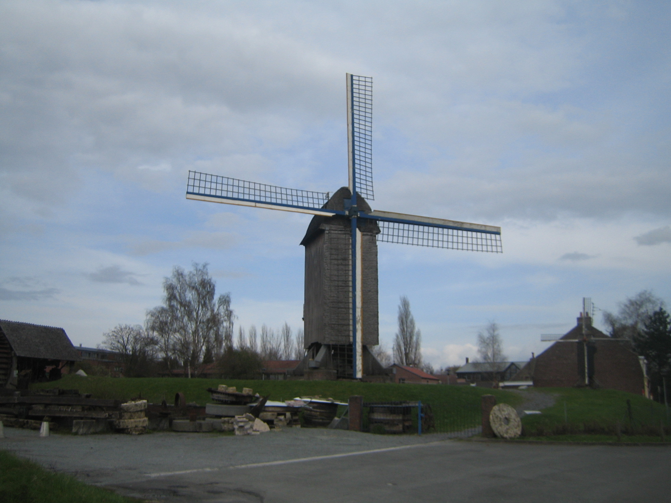 Flour mill, Villeneuve d'Ascq.